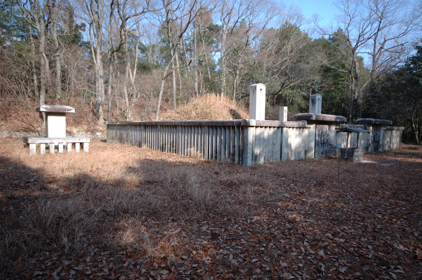 San-no-oyama,graves of Mr. and Mrs. Ikeda Mitsumasa,This side is the Mitsumasa's grave.